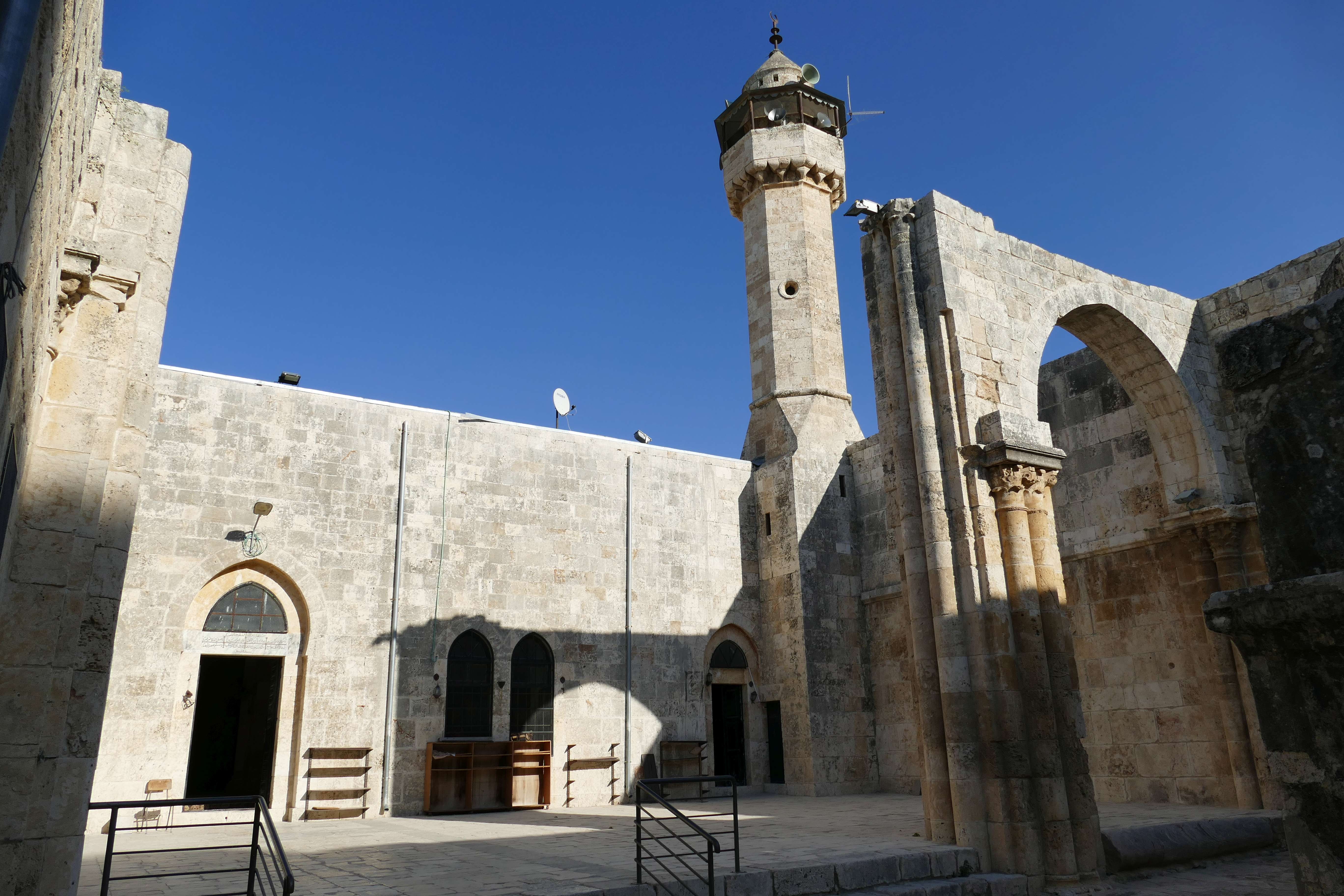 Nabi Yahya mosque (former crusader church) in Sebastia, West Bank.